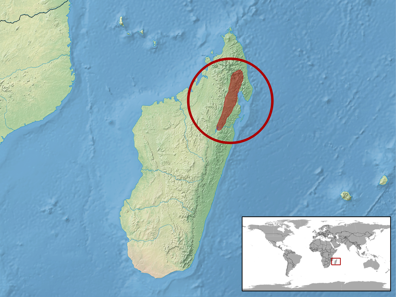 geographic distribution of Paracontias kankana